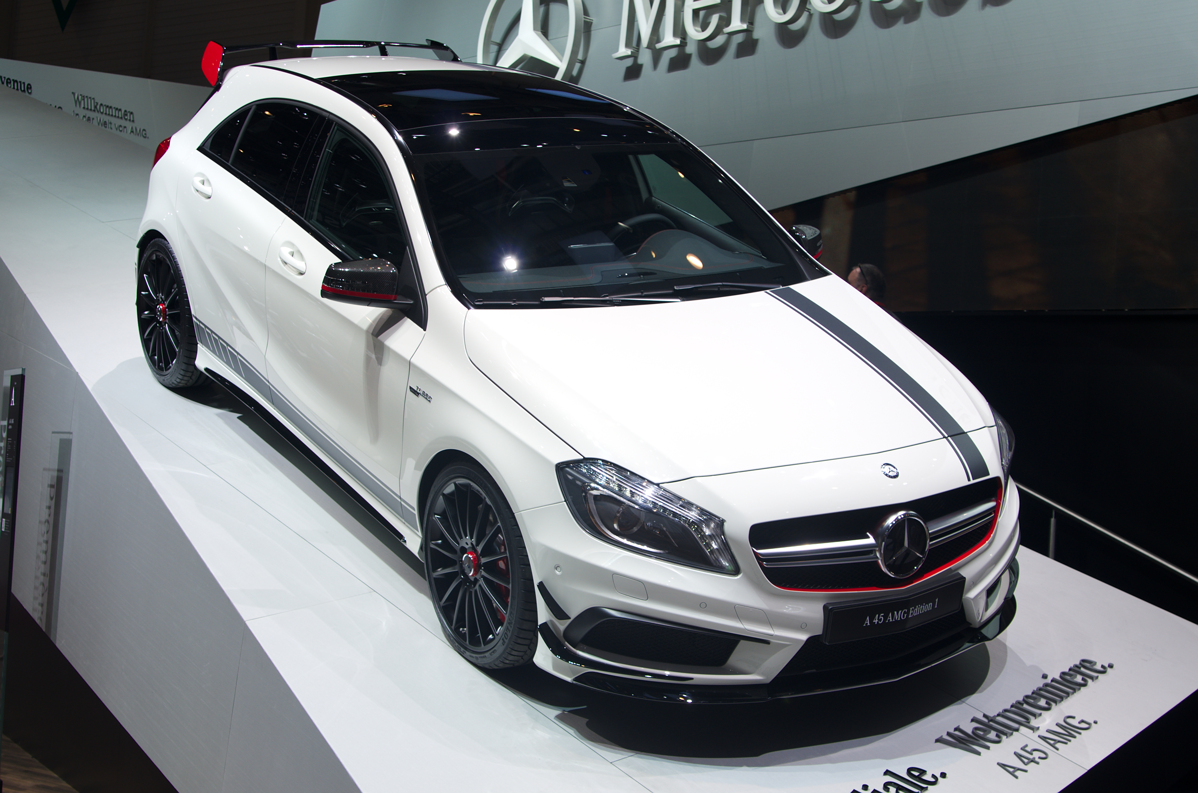 Geneva MotorShow 2013 - Mercedes A 45 AMG Edition 1